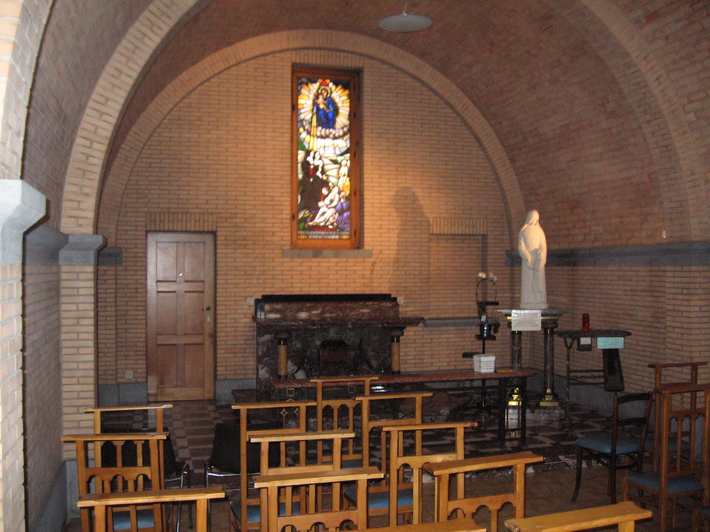 The St Julie Billiart chapel in the Sisters of Notre-Dame's Mother house, in Namur (Belgium)